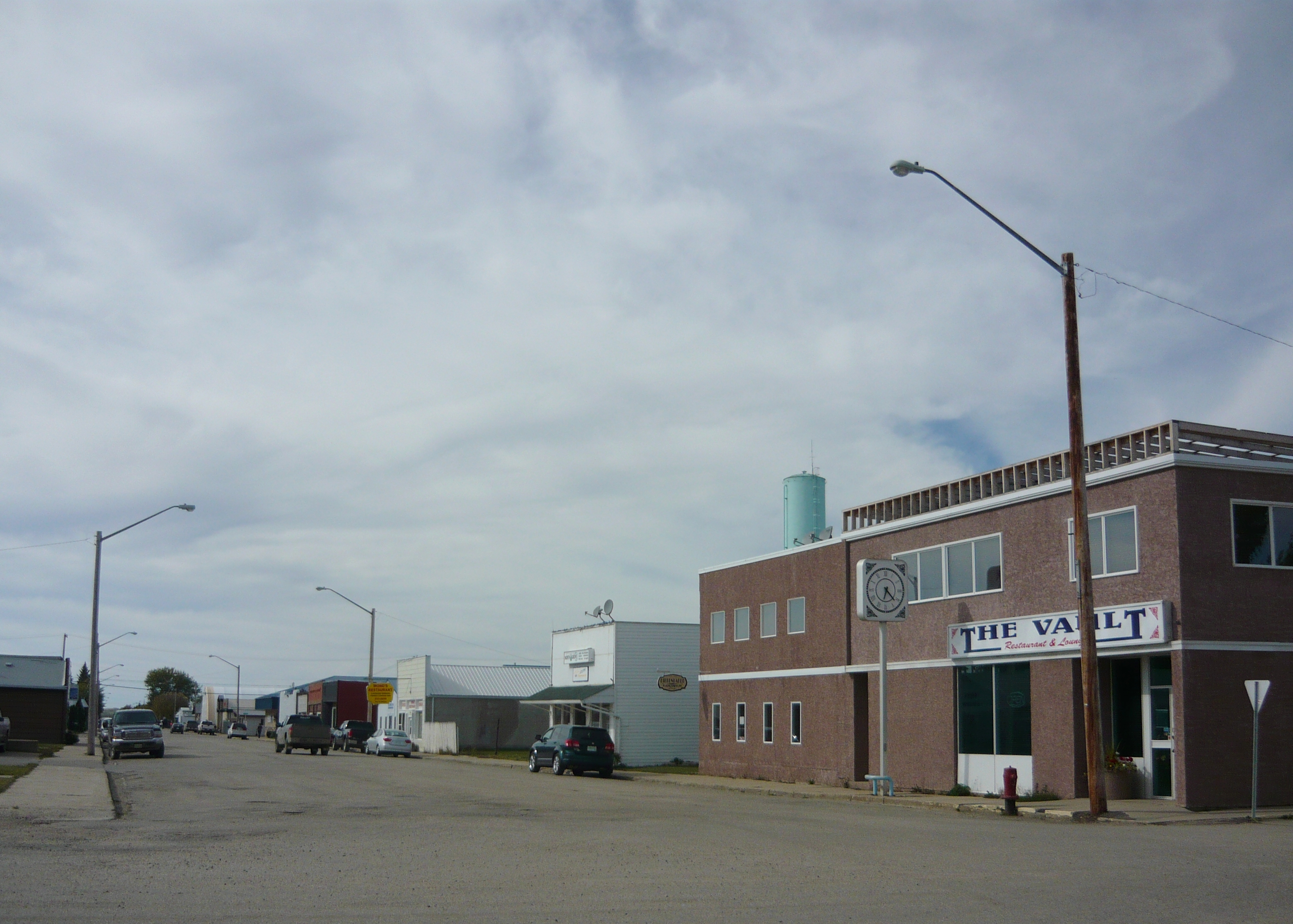 Wakaw, Saskatchewan, Canada, looking westward on 1st Street South from Railway Avenue.